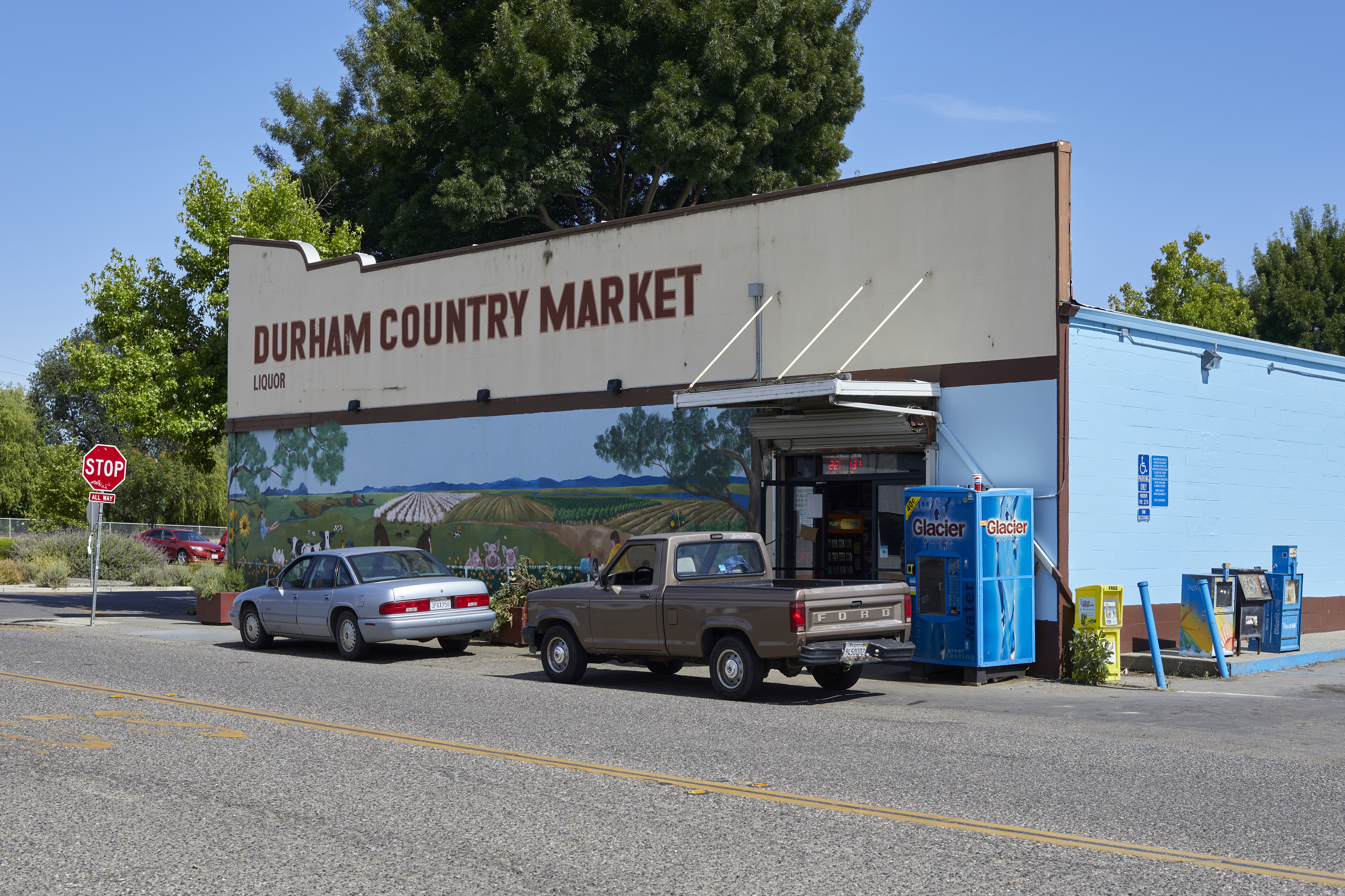 Durham Country Market in the small town of Durham, Butte County, California.